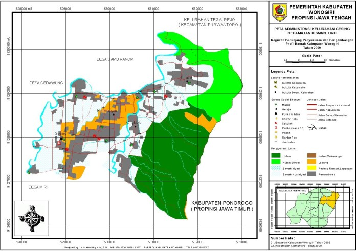 Peta Kelurahan Gesing